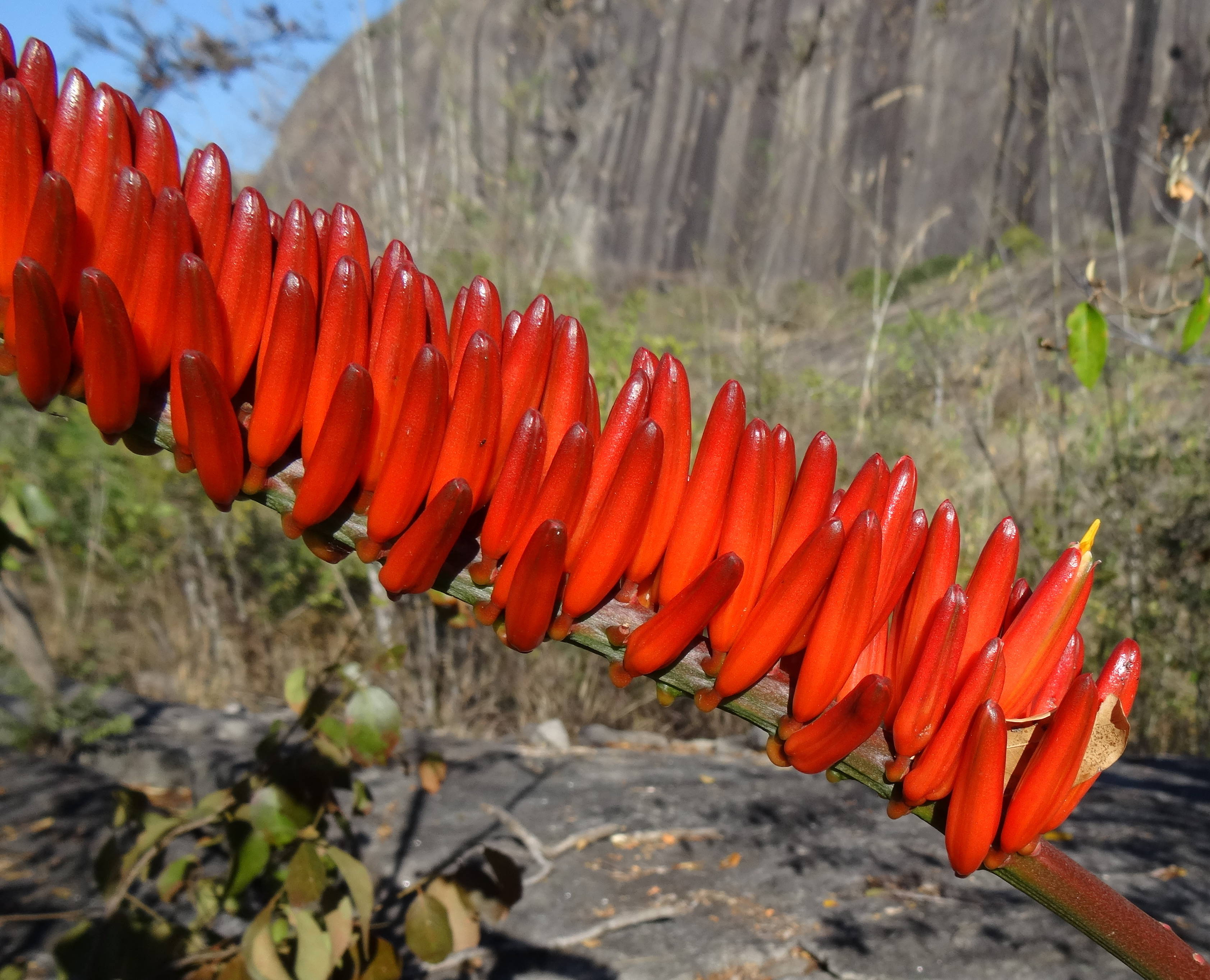 Part of the raceme of Aloe mawii, Montes Nairucu in Northern Mozambique.